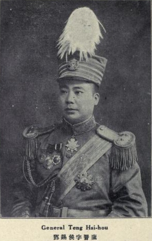 Deng Xihou, Jinkang (1889 - 1964)